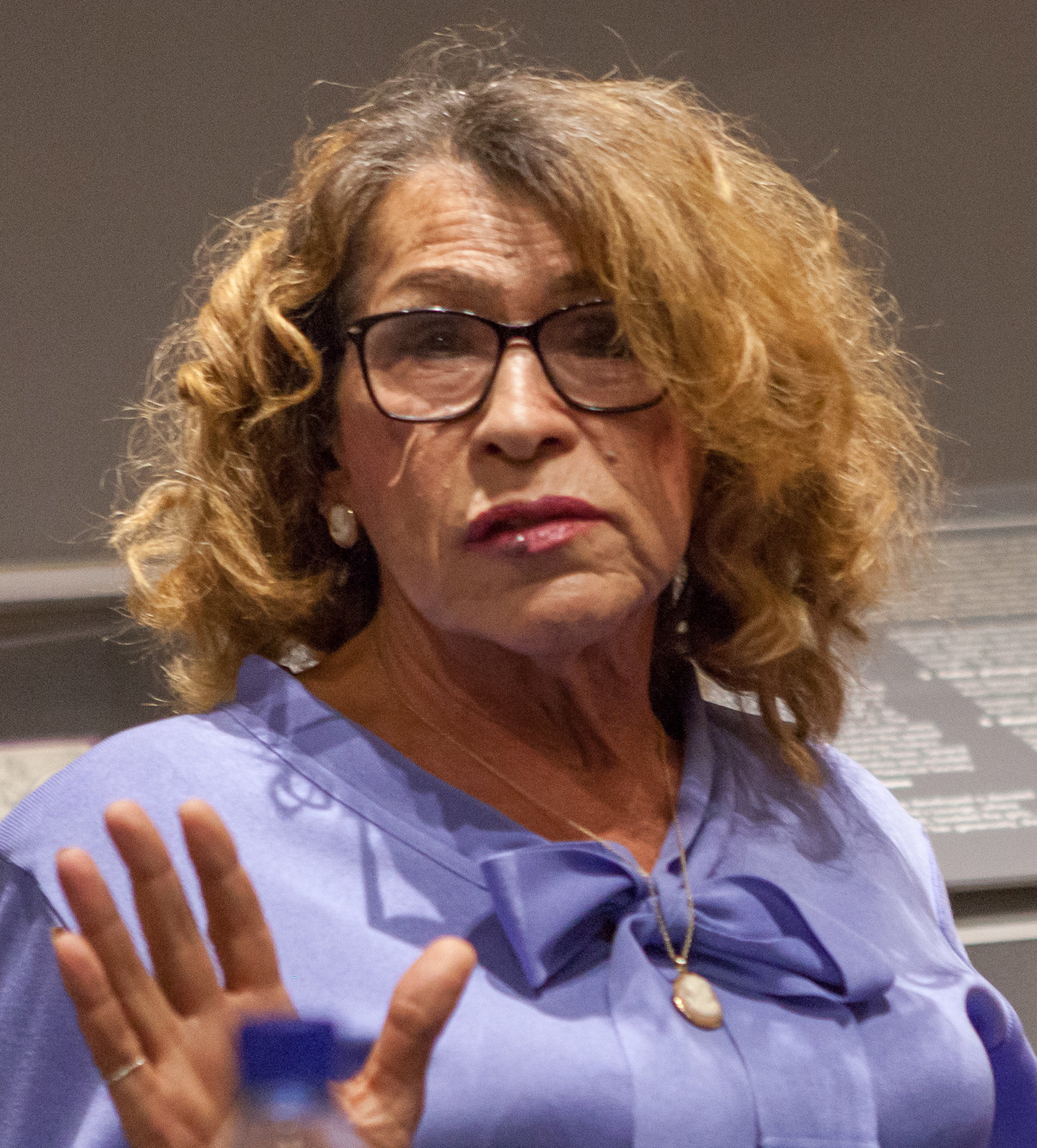 Donna Personna speaks on a panel on transgender rights activism at the GLBT History Museum in San Francisco.